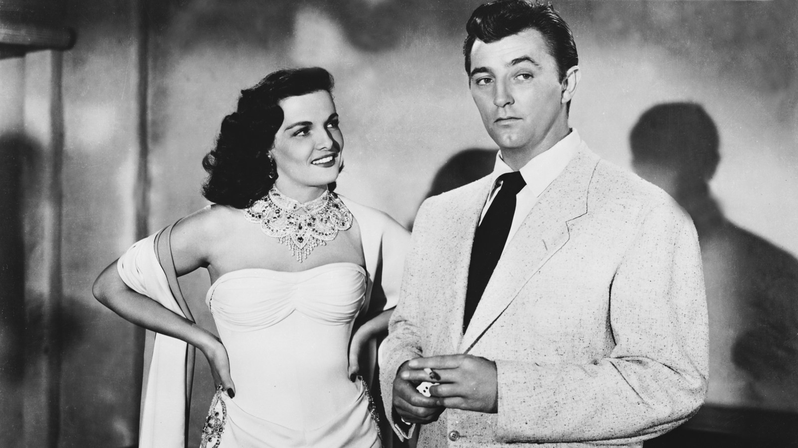 Macao (film) 1952. Josef von Sternberg, Nicholas Ray, directors - L to R Jane Russell, Robert Mitchum RKO Pictures